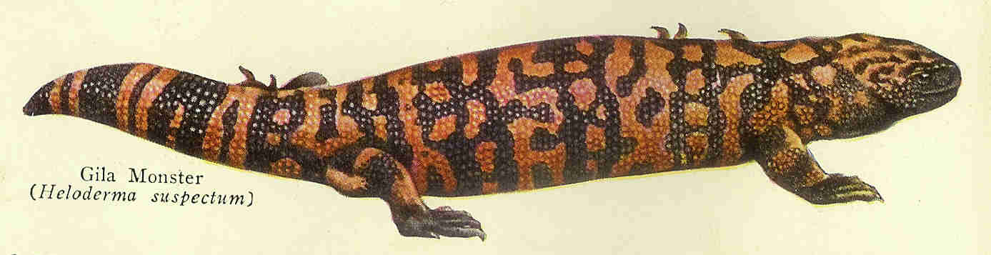 Gila Monster of North America. Plate from Century Cyclopedia.